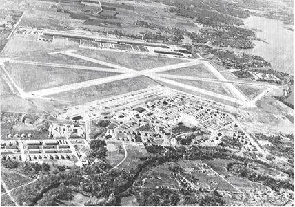 Oblique Aerial of Fort Worth Army Airfield - 1945